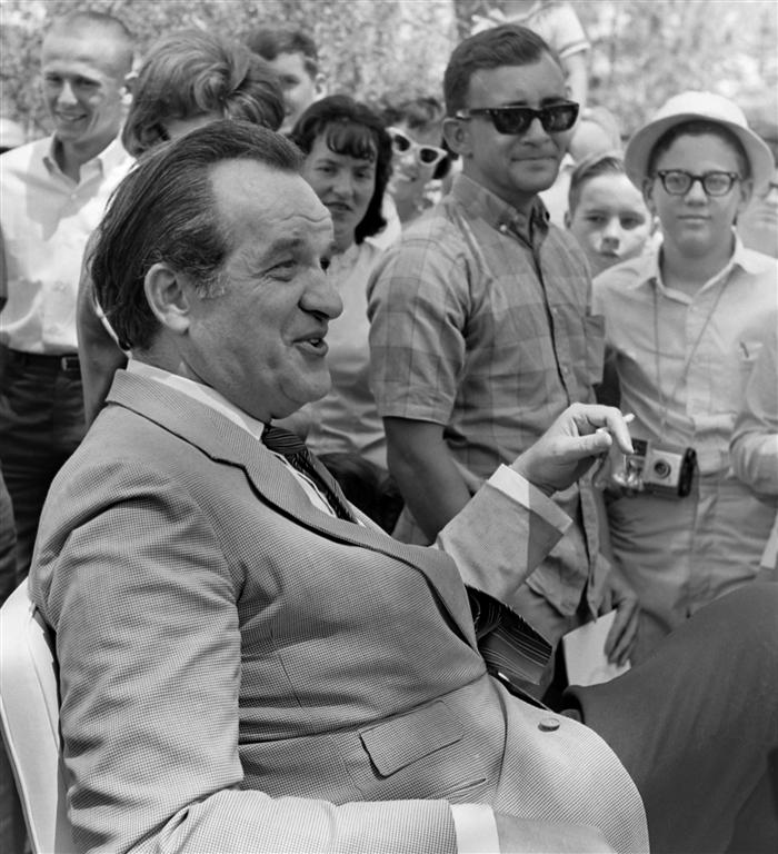 Al Capp shown at the 1966 Okaloosa Walton Junior College Arts Festival, Fort Walton Beach, Florida. He was one of the featured artists at the festival.